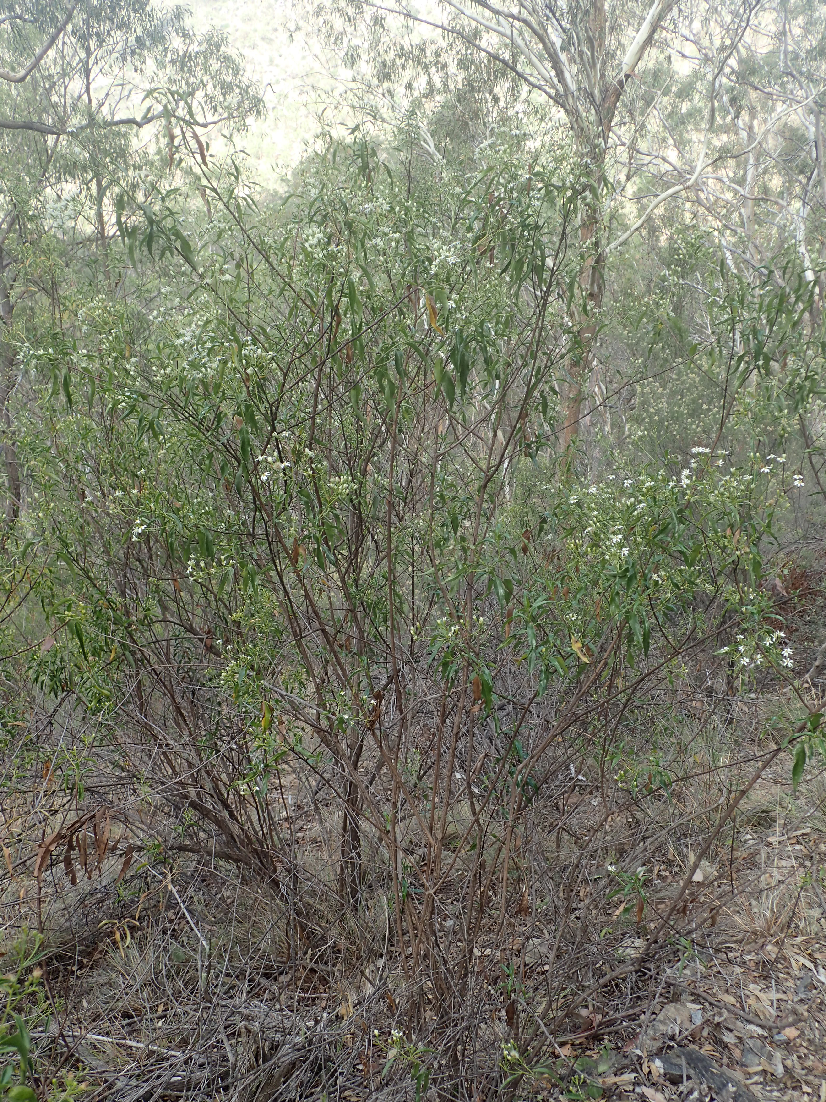 Olearia elliptica near Dangars Falls in the Oxley Wild Rivers National Park